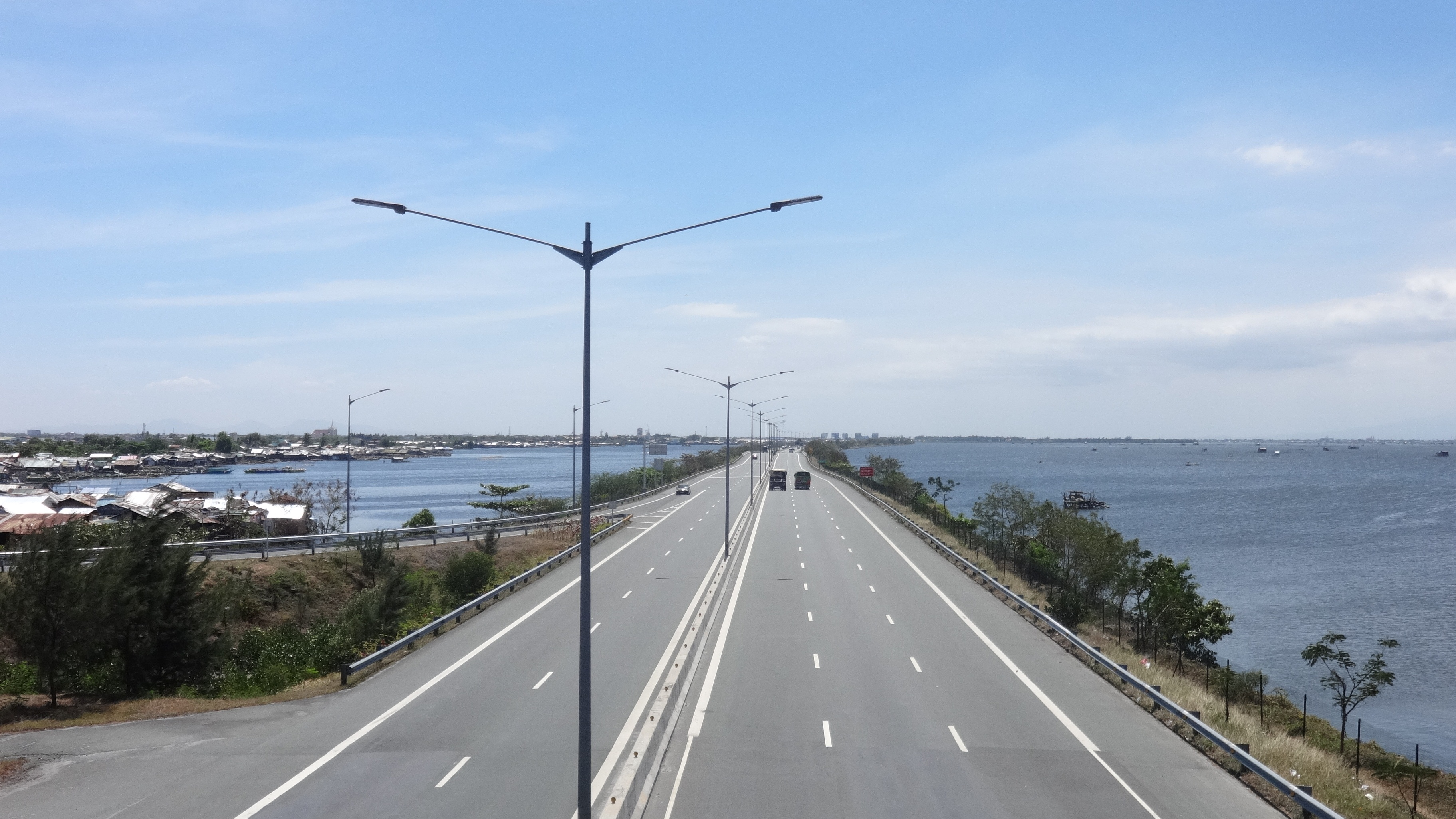 Portion of Manila-Cavite Expressway (Coastal Road) extension in Bacoor, Cavite towards Kawit